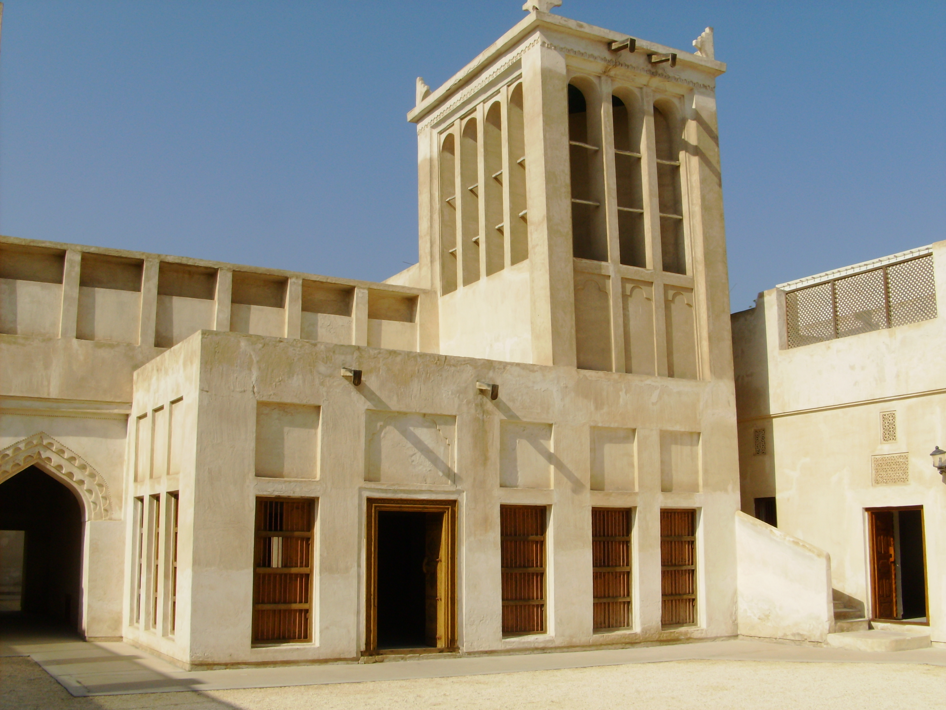 Windtower of Isa Bin Ali House, home of former ruler of Bahrain, in Muharraq, Bahrain